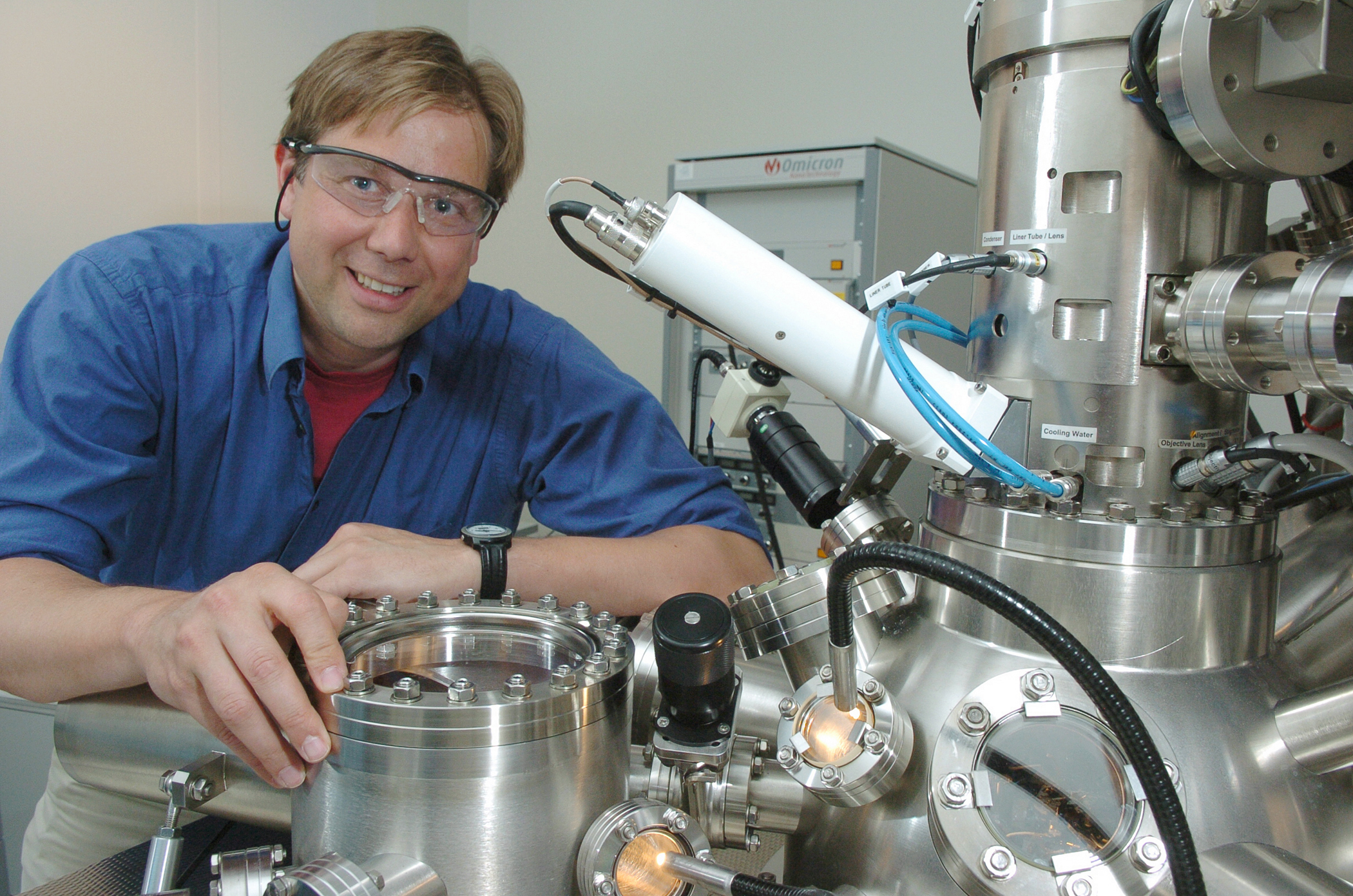 The following is the author's description of the photograph quoted directly from the photograph's Flickr page. "Matthias Bode is shown with his spin-polarized scanning tunneling microscope. His enhanced technique allows scientists to observe the magnetism of single atoms. Use of this method could lead to better magnetic storage devices for computers and other electronics. The Center for Nanoscale Materials at the Advanced Photon Source."